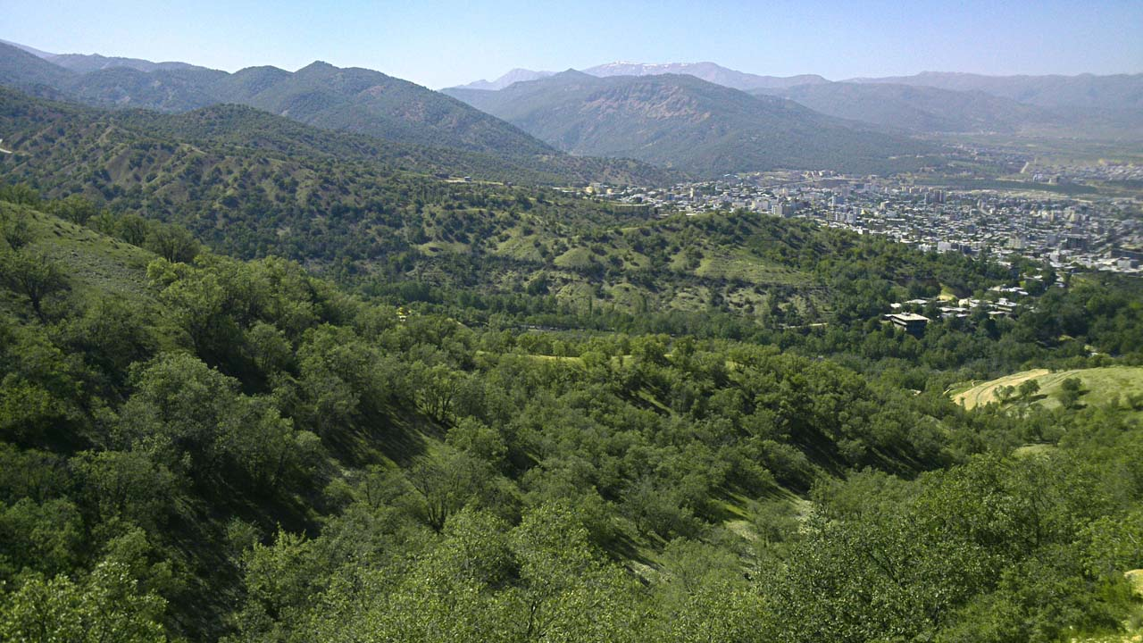 yasuj city